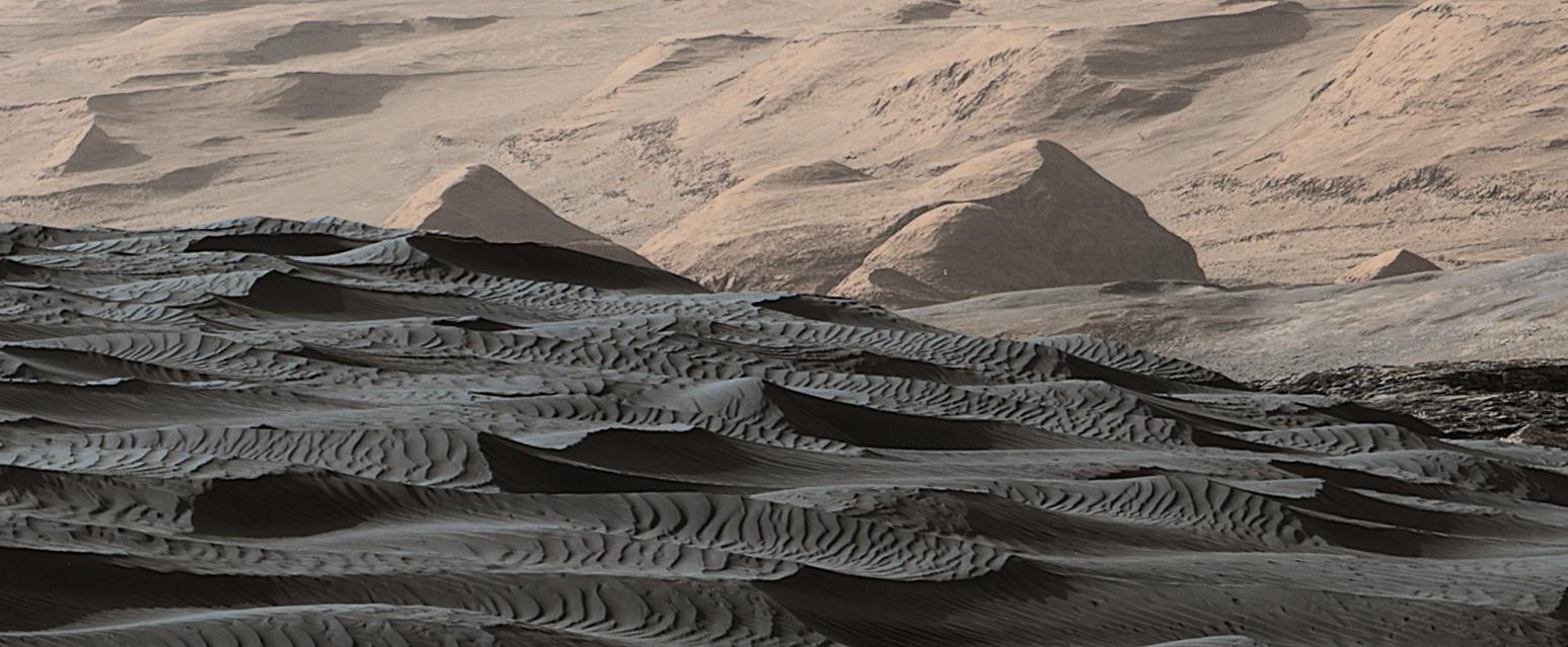 Image from the Mast Camera (Mastcam) on NASA's Curiosity Mars rover, taken on 13 December 2015 (sol 1,192).